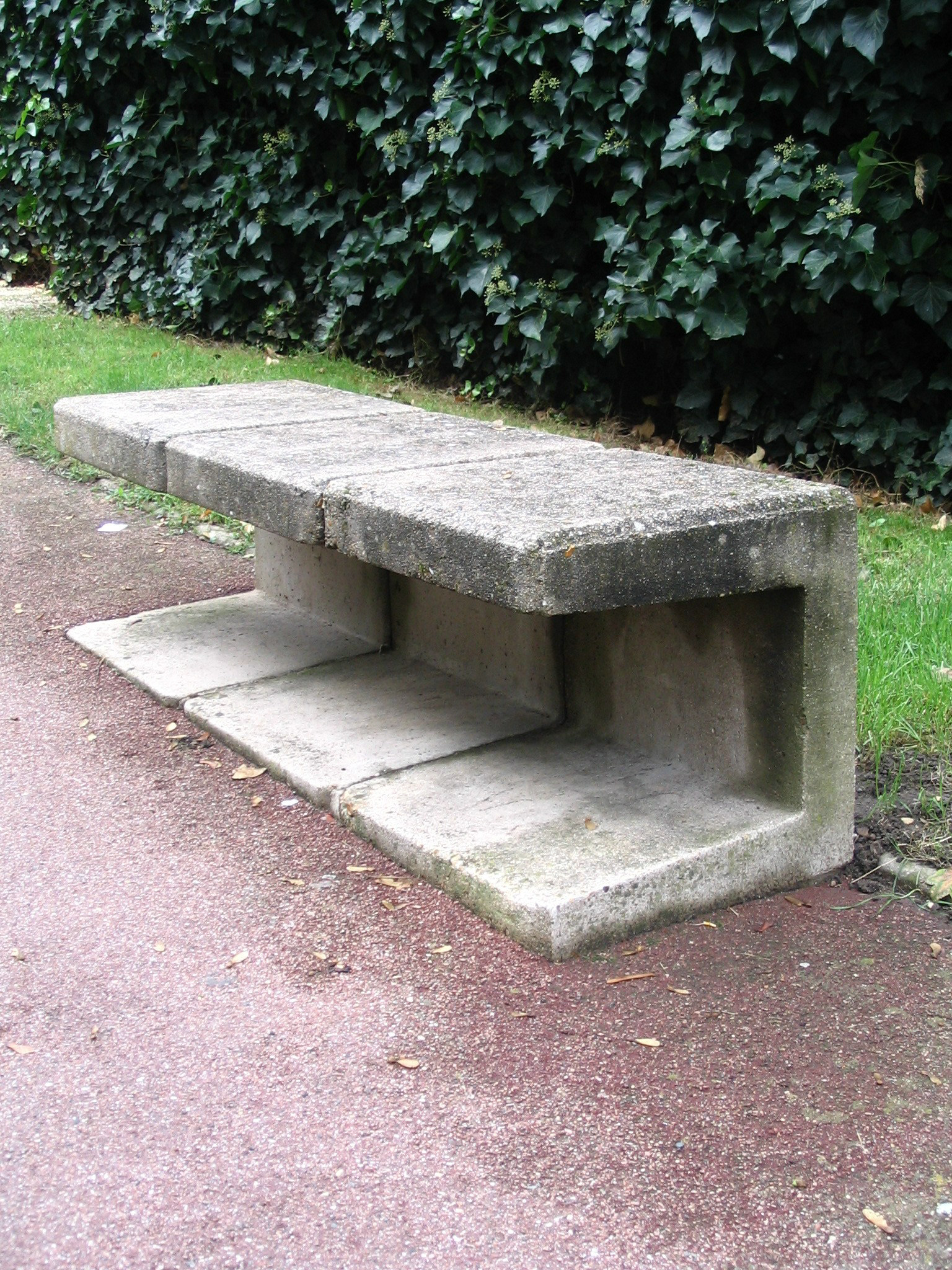 Street furniture